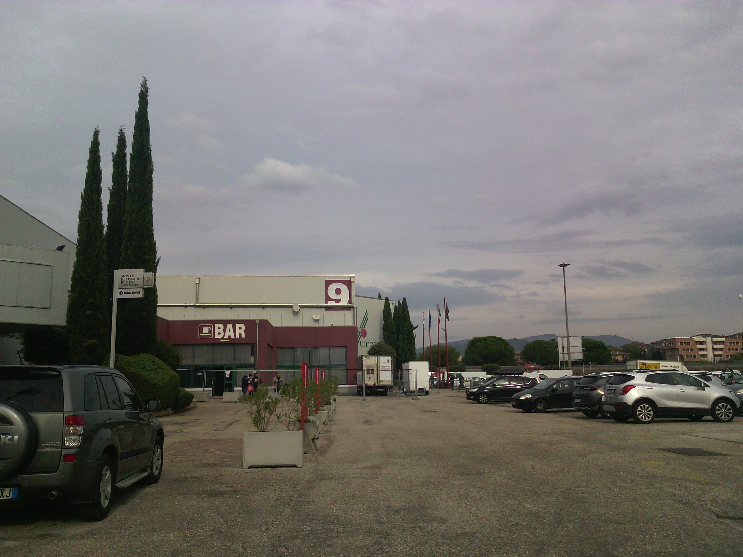 "Umbriafiere" fairgrounds in Bastia Umbra (Umbria, Italy). November 4, 2018.